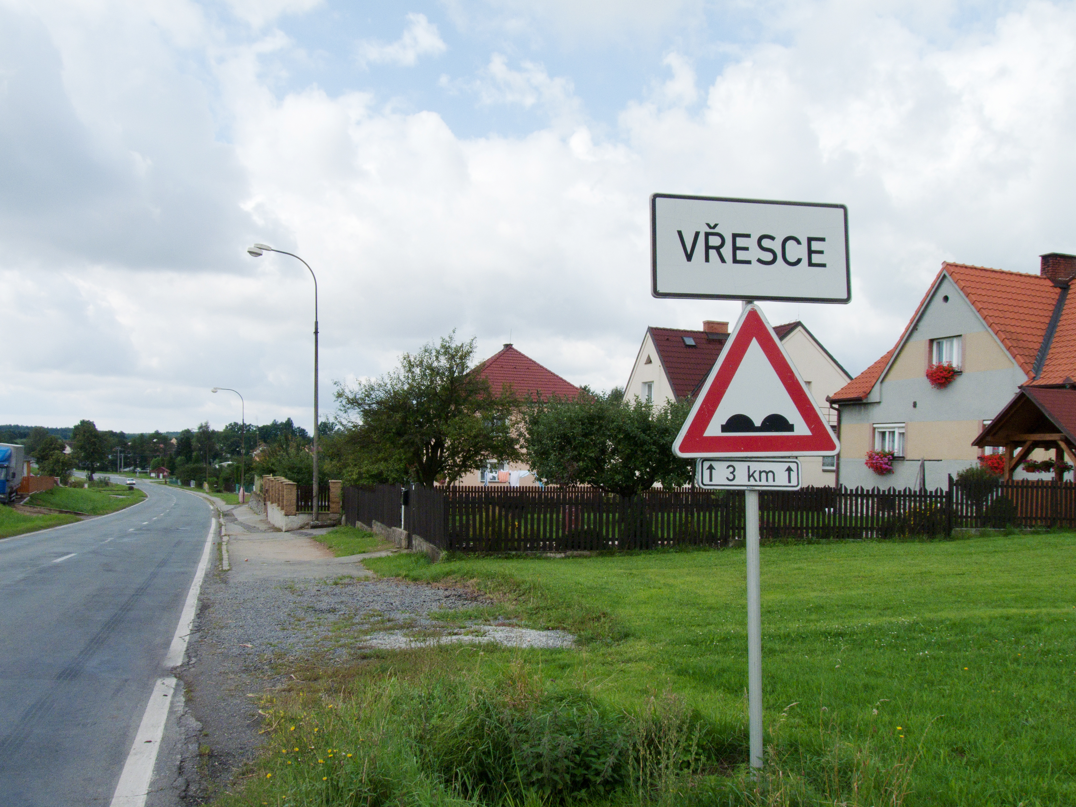 Road sign in the village of Vřesce, Tábor District, Czech Republic